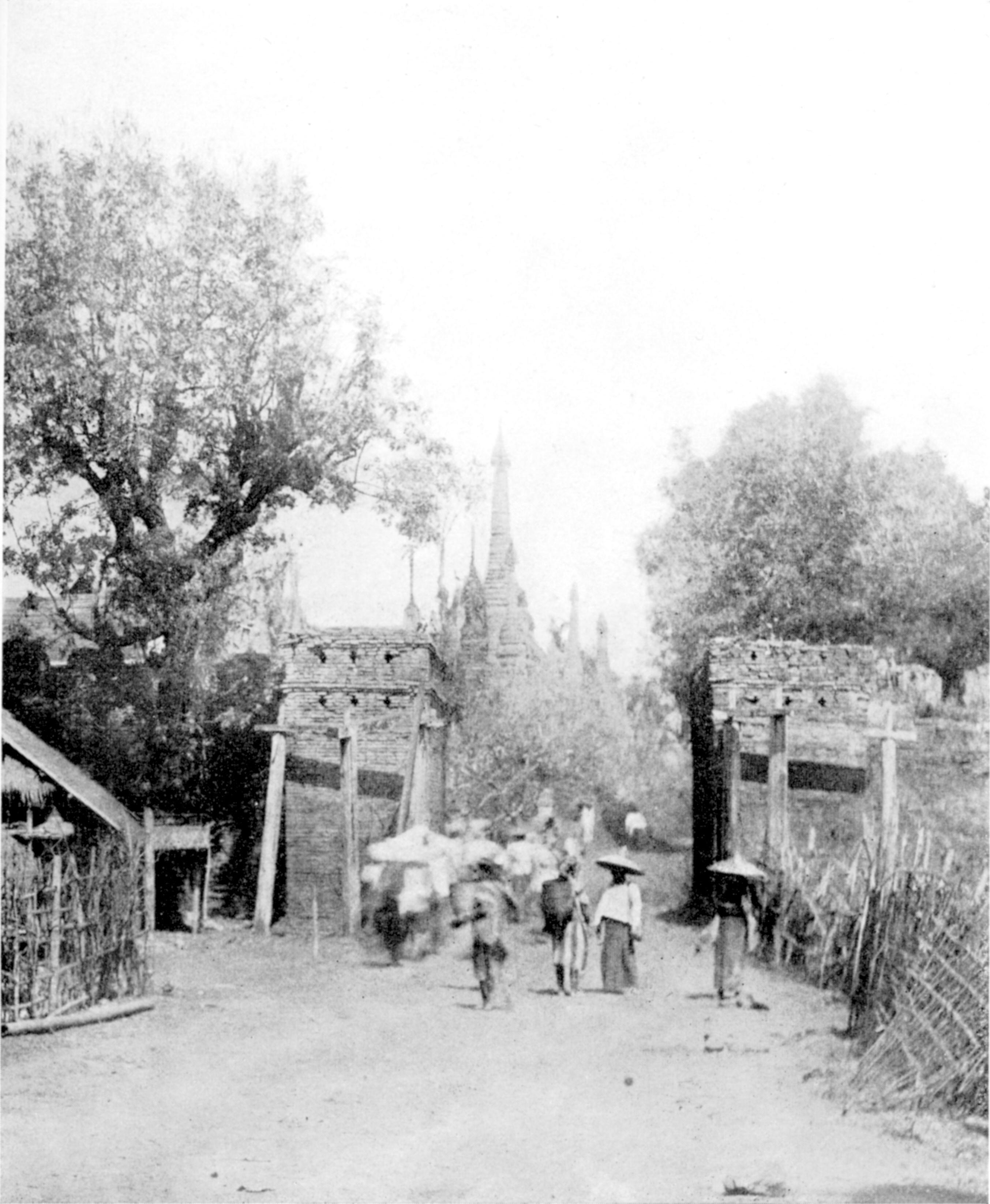 The Gate at Monè (Mongnai)Through this galloped the gallant little band to secure the usurper. Taken from inside the Haw grounds looking out to the pagoda.